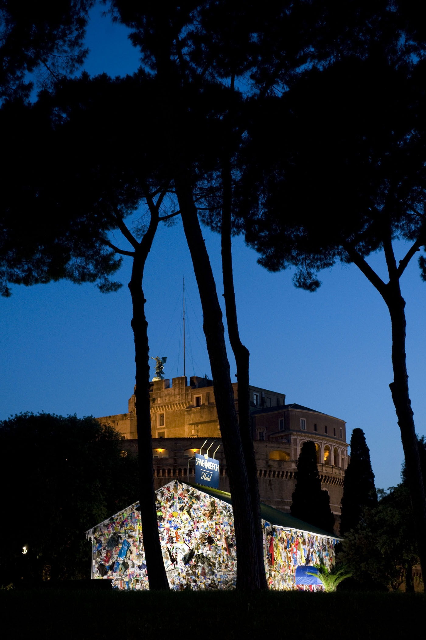 "Beach Garbage Hotel Corona" di HA Schult, Castel Sant'Angelo, Roma 2010